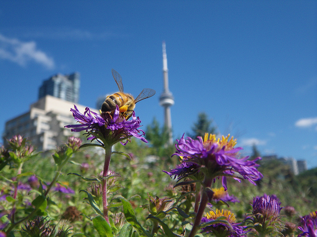 Honey bee visiting a new england aster with the cn tower in the background more on Urban beekeeping here